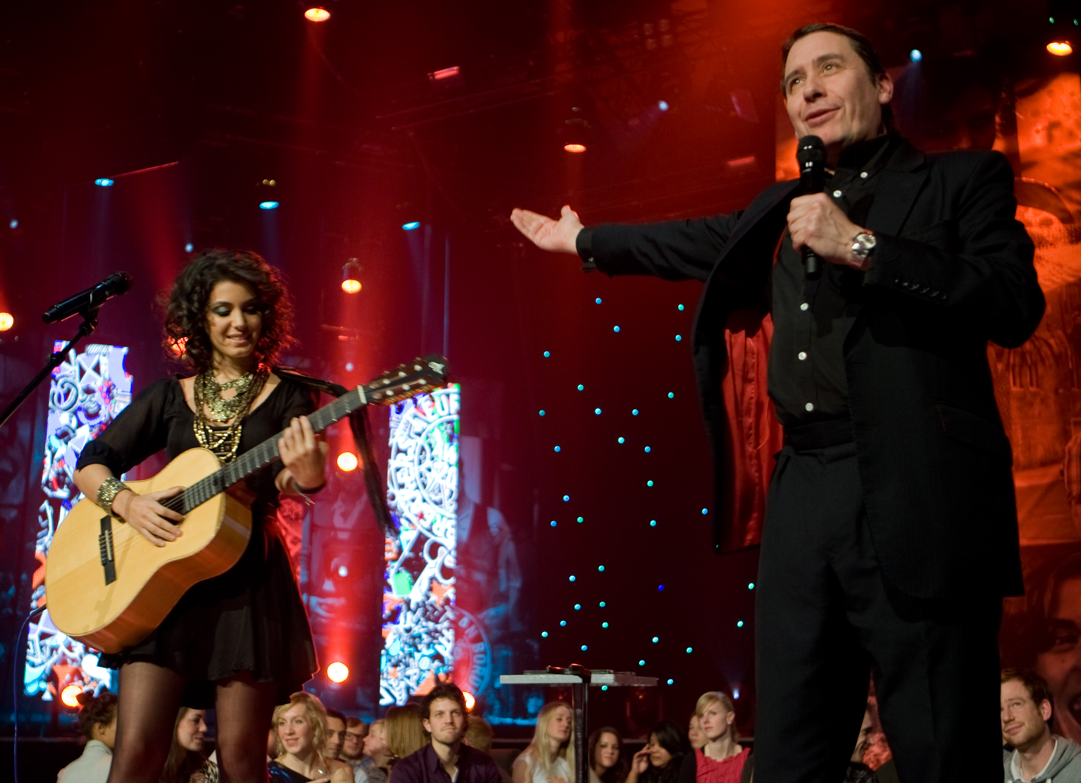 European Border Breakers Awards 2011 - Katie Melua & Jools Holland- by René Keijzer